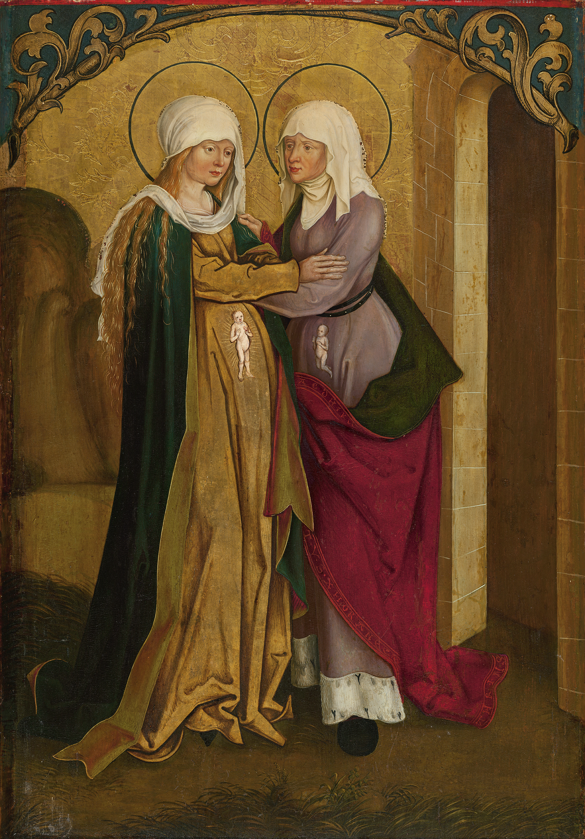 The Visitation